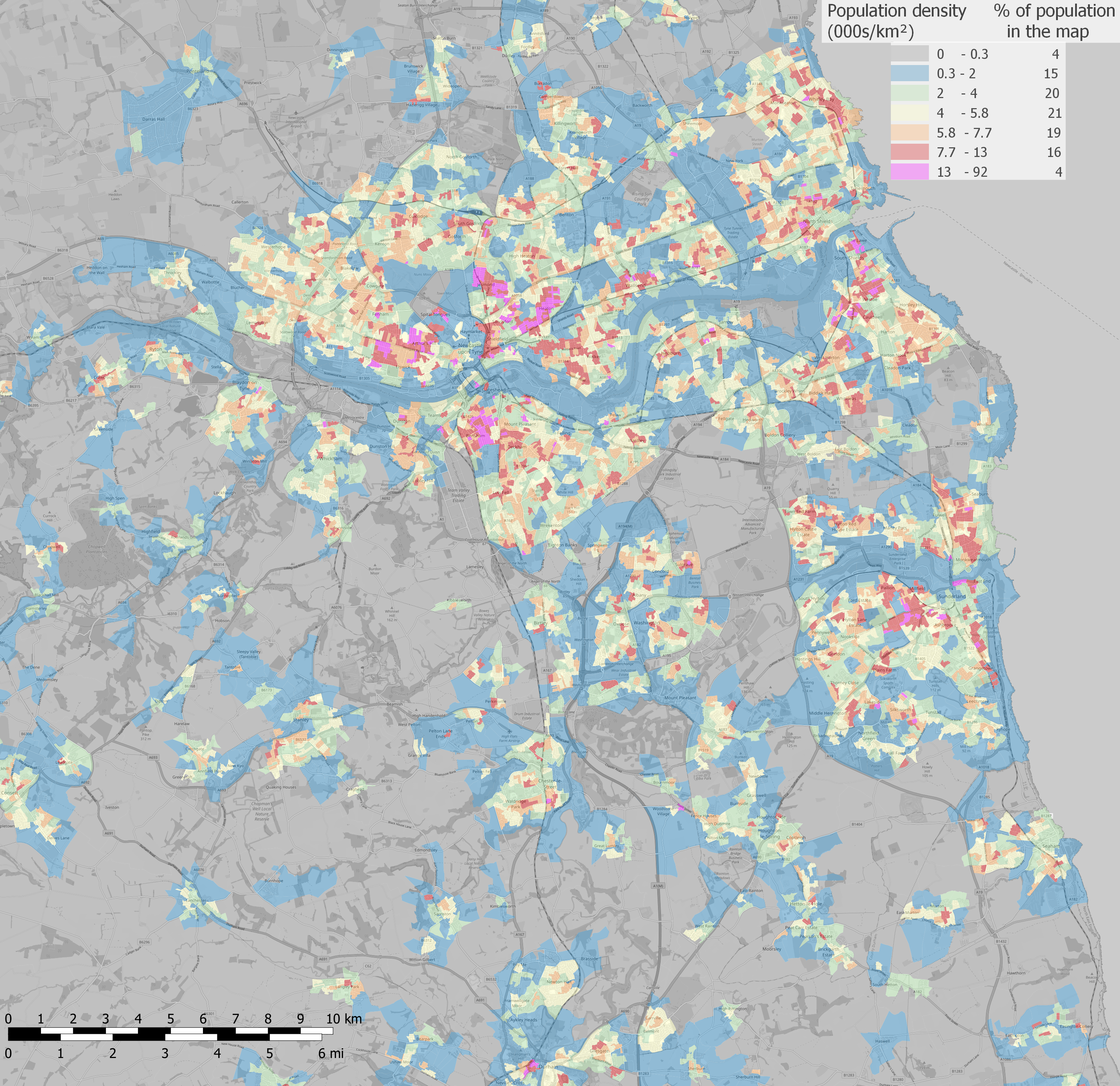 In 2011 the map area was inhabited by 1.4 mln people, 1.1 mln in Tyne and Wear county. Population density computed from 2011 Output Area (OE) data and there is on 2020 map so new neighbourhoods are visible in the grey zone. Values sometimes are not representative because: sometimes a whole nonresidential area is contained in one from a few adjacent OEs. sometimes OEs encompass only building, sometimes only part of it, to keep up stiff household count limit, what gives very high density. OE boundaries are visible, especially in red and pink.